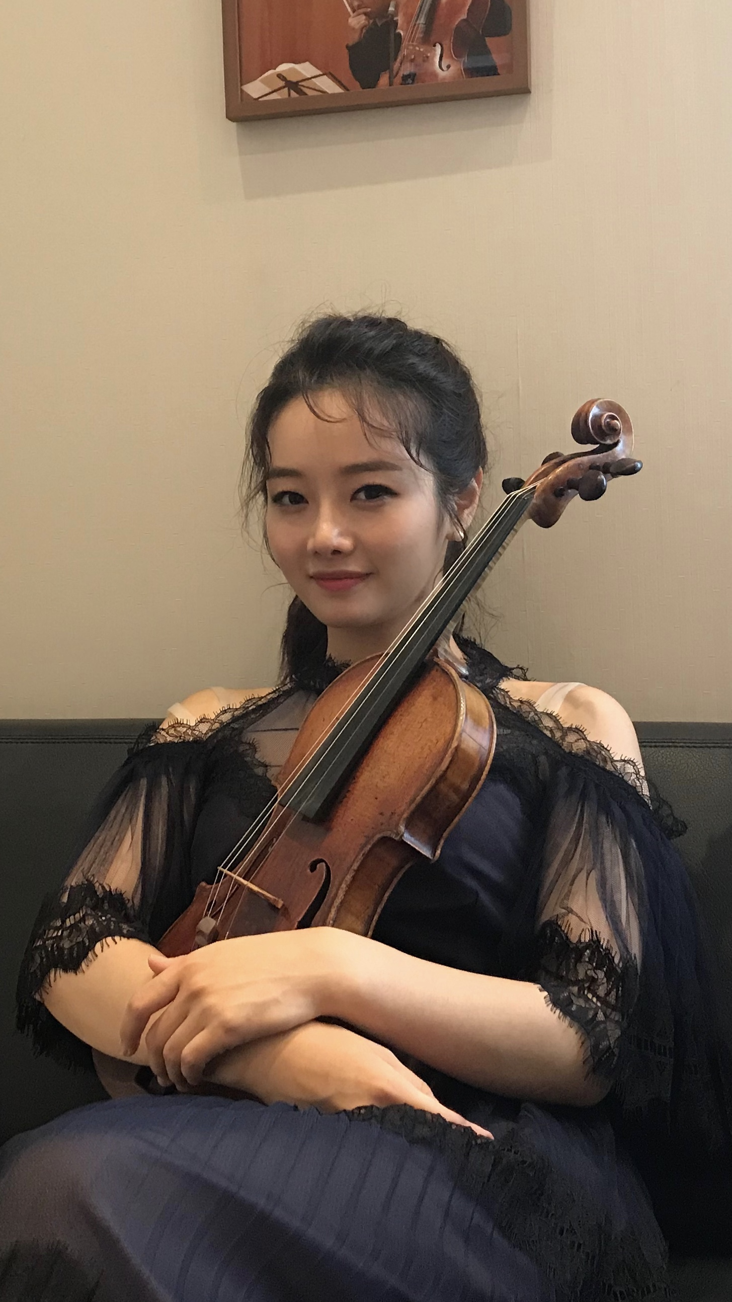 Korean violinist Bomsori Kim holds up the J. B. Guadagnini 1774 Turin which was loaned to her from Kumho Asiana Cultural Foundation. This photo was taken after her recital at Kumho Art Hall in 2018.